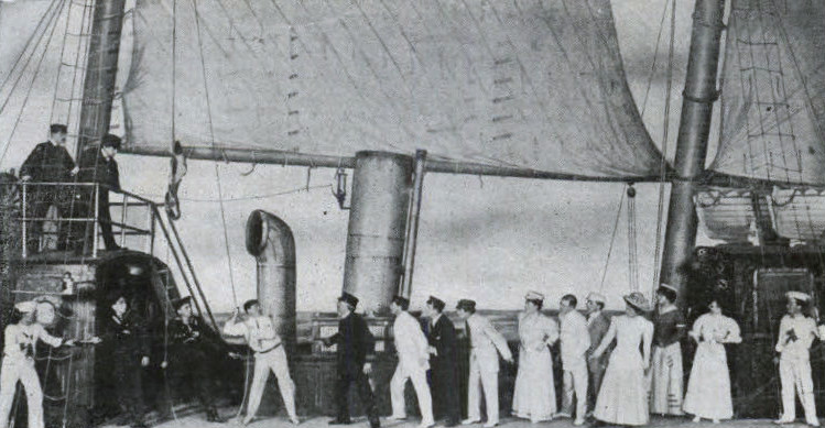 Photo from the stage production of Brewster's Millions. This is the yacht scene and Edward Abeles stars as Monty Brewster as he also did in the later film.